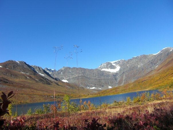 Elvevolldalen Troms Norway